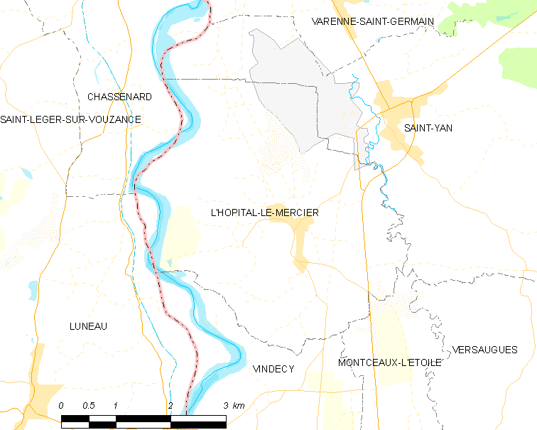 Map of French municipality